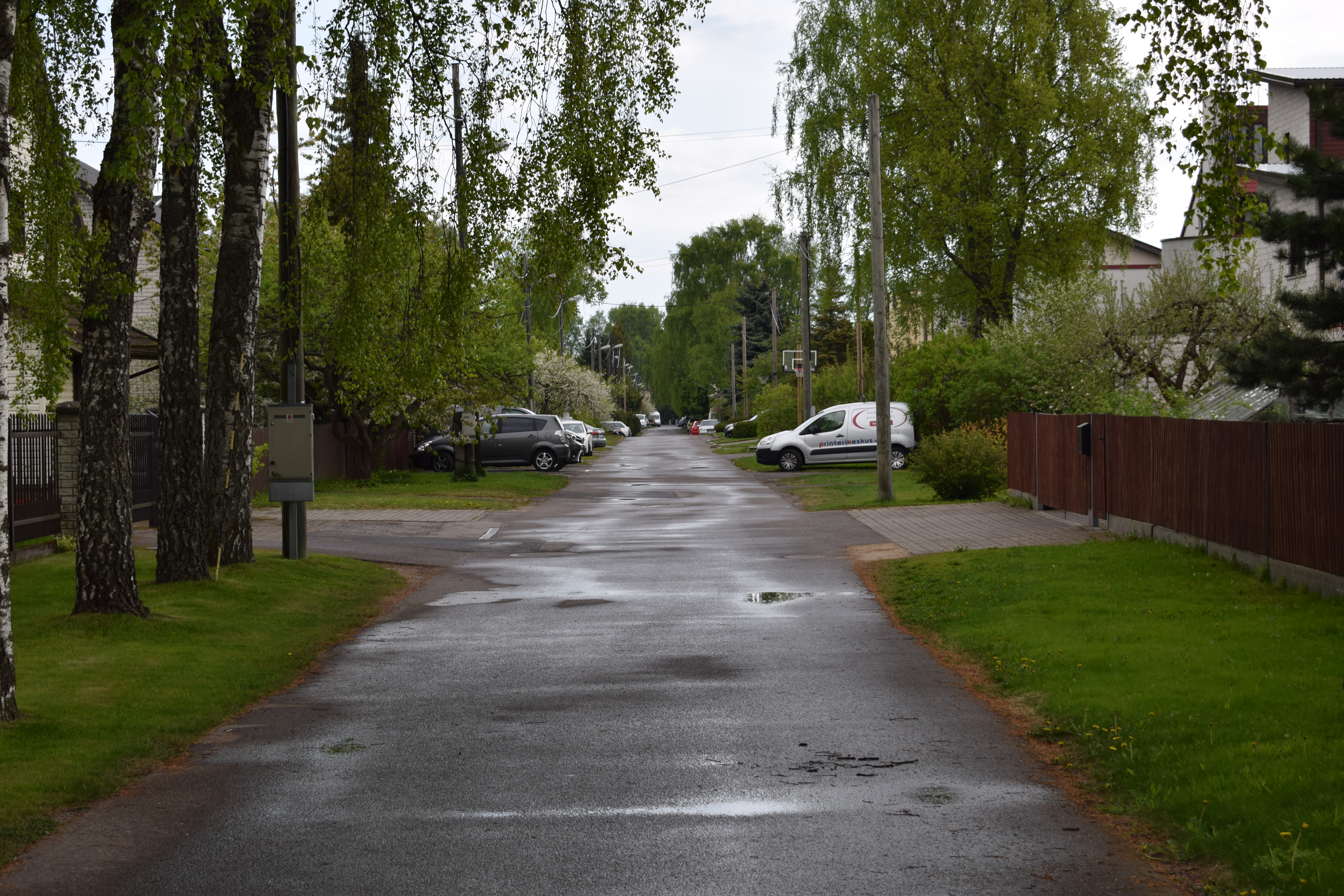 Härmatise street